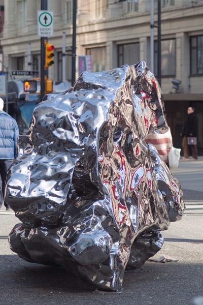 Picture of "Artificial Rock #143" by Zhan Wang of China, located outside the Vancouver City Centre Canada Line station. Wilson Wong photo.